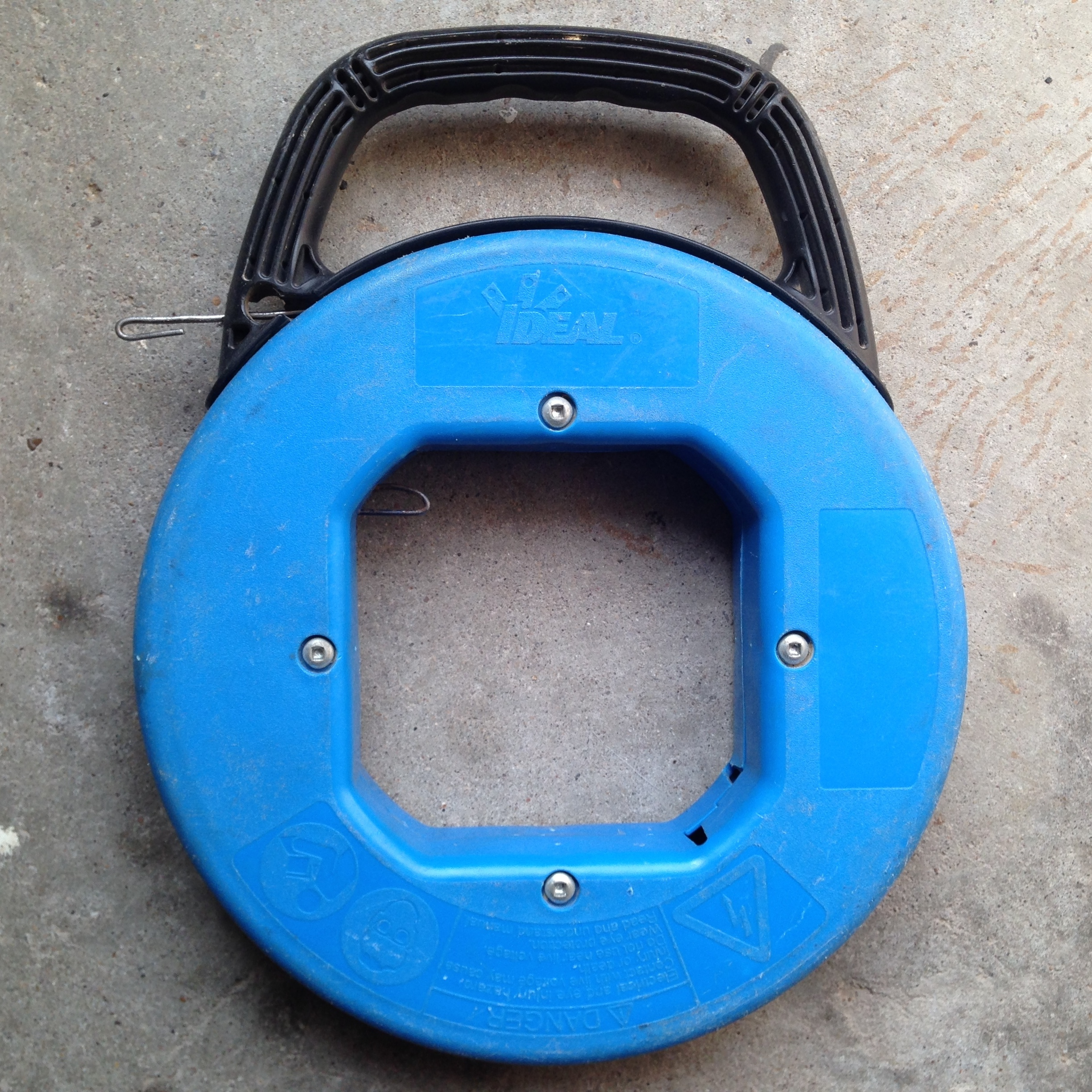 A 75' steel fish tape manufactured by Ideal Industries.